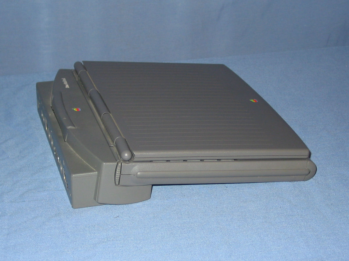 Side view of a PowerBook Duo 210 portable computer